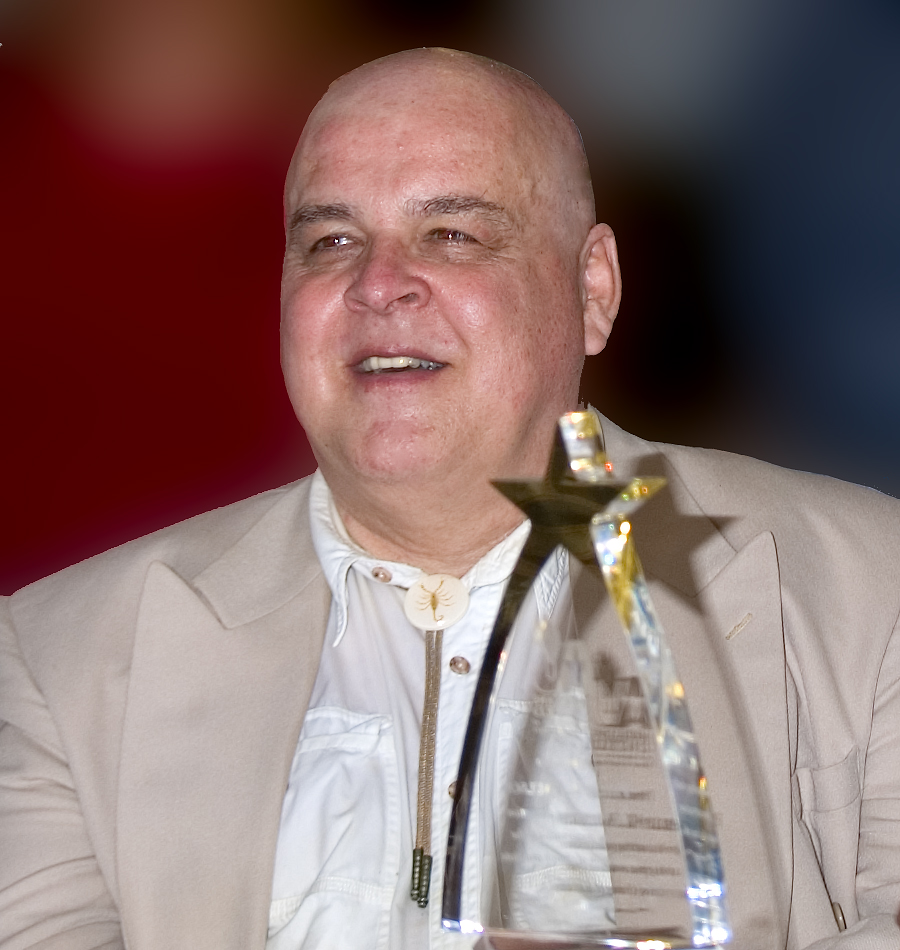 Phil Paulson. Recognition event. El Cajon, CA.